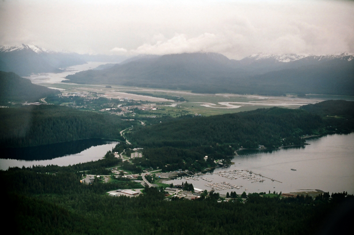 35mm film scan from Gillfoto Archives